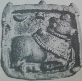 The royal emblem of Kalachurya empire.